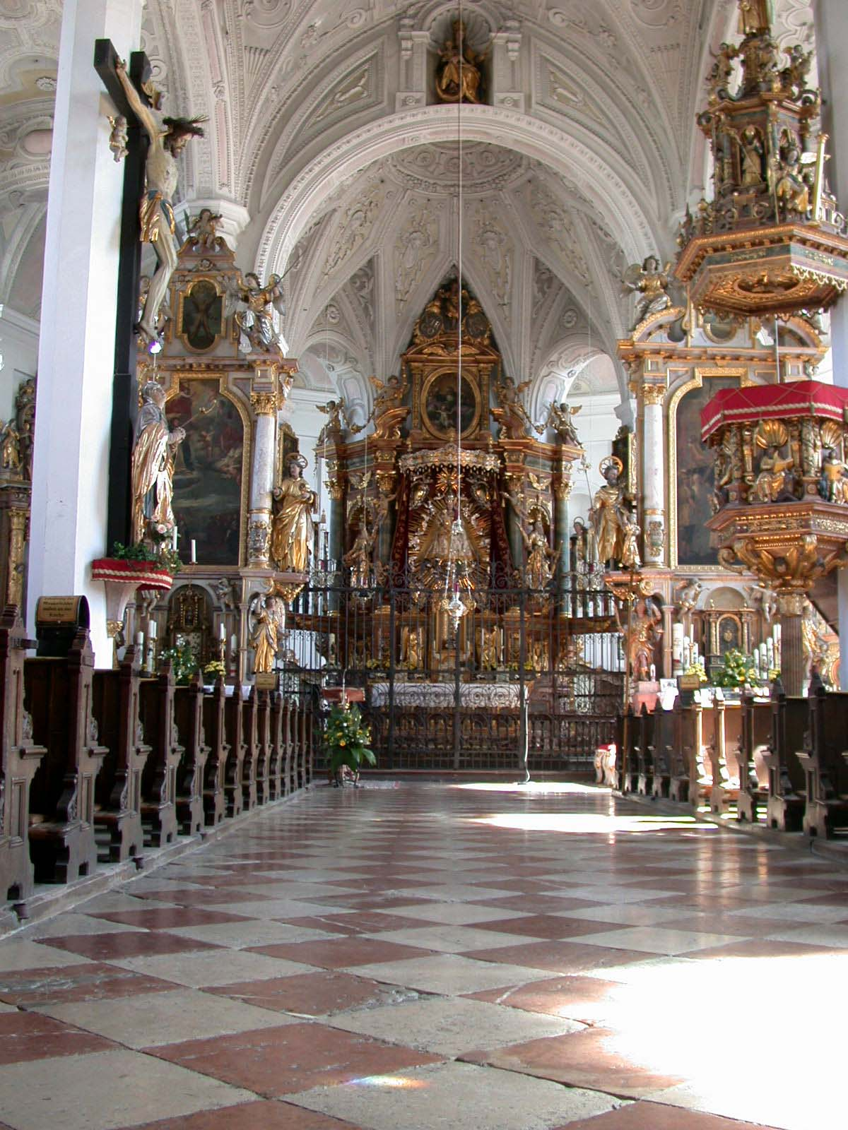 Pilgrimage Church Mariä Himmelfahrt (Tuntenhausen) Interior